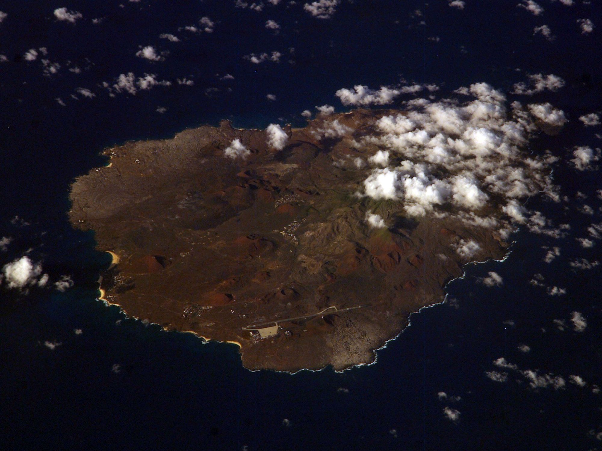 NASA astronaut image of Ascension Island, Atlantic Ocean